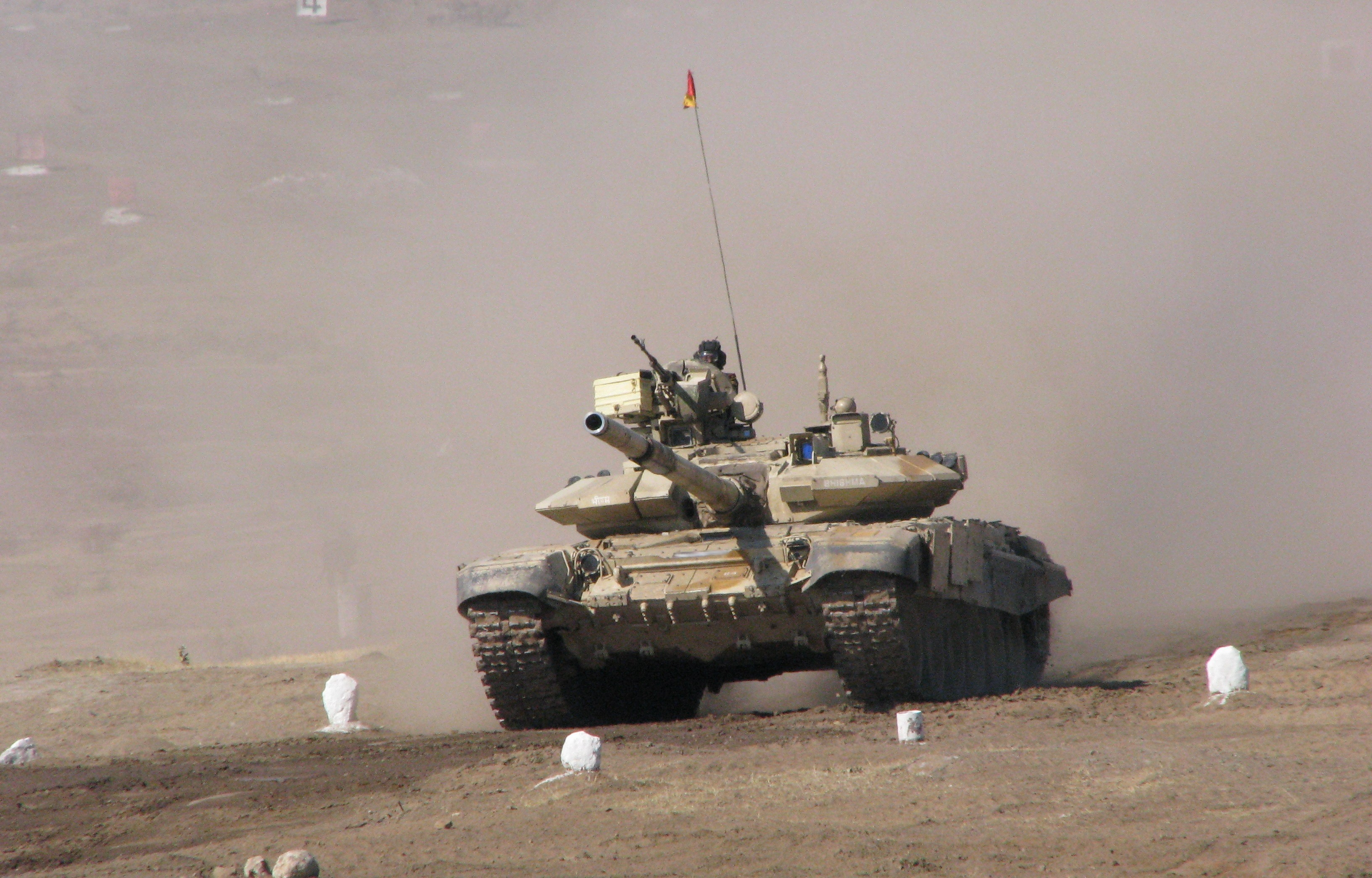 T-90 tank of the Indian army.